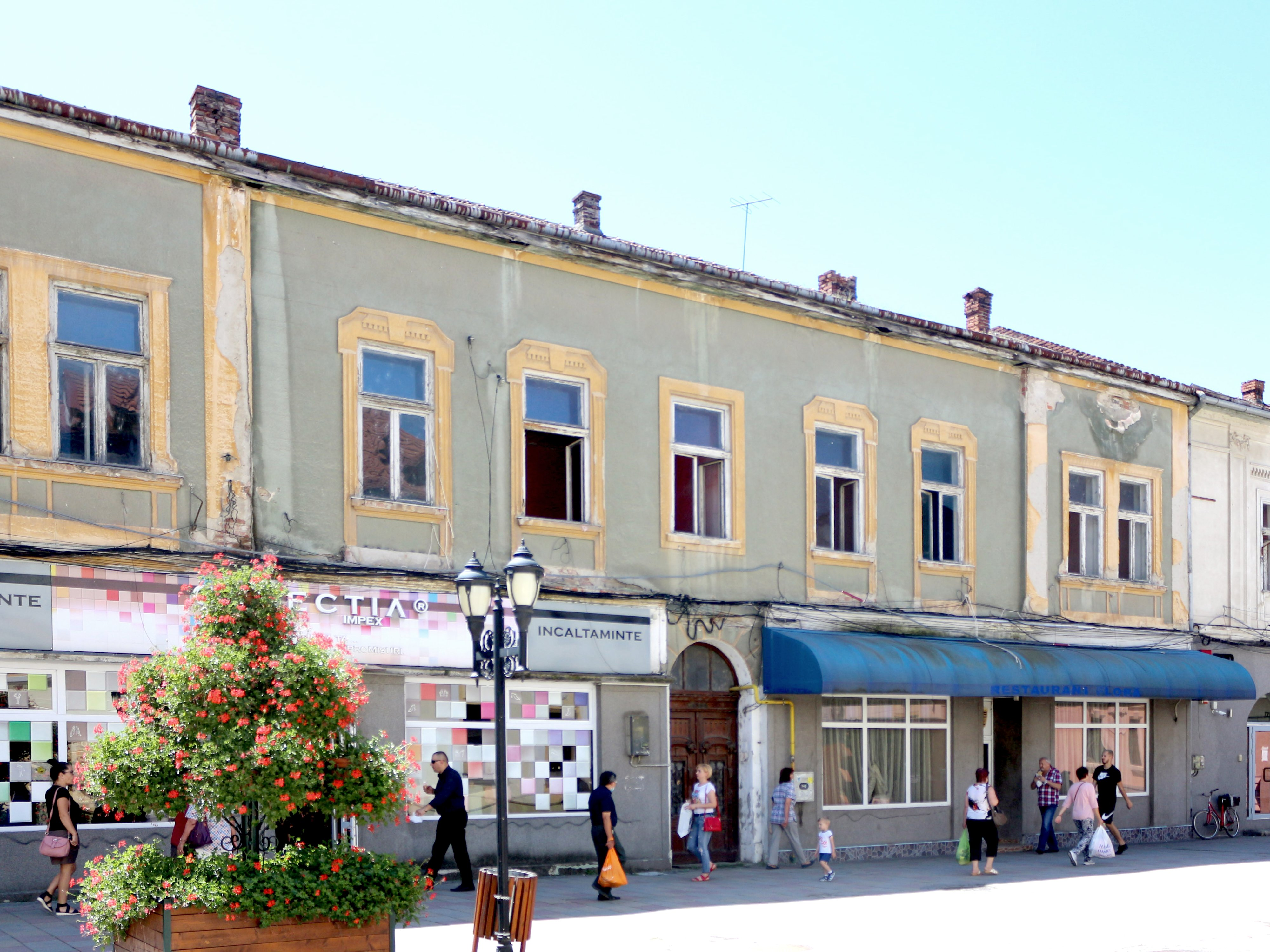 Building, Episcopiei St., Eiscopiei St., no. 10, Catransebeș, Romania, built in the middle of 18th century.